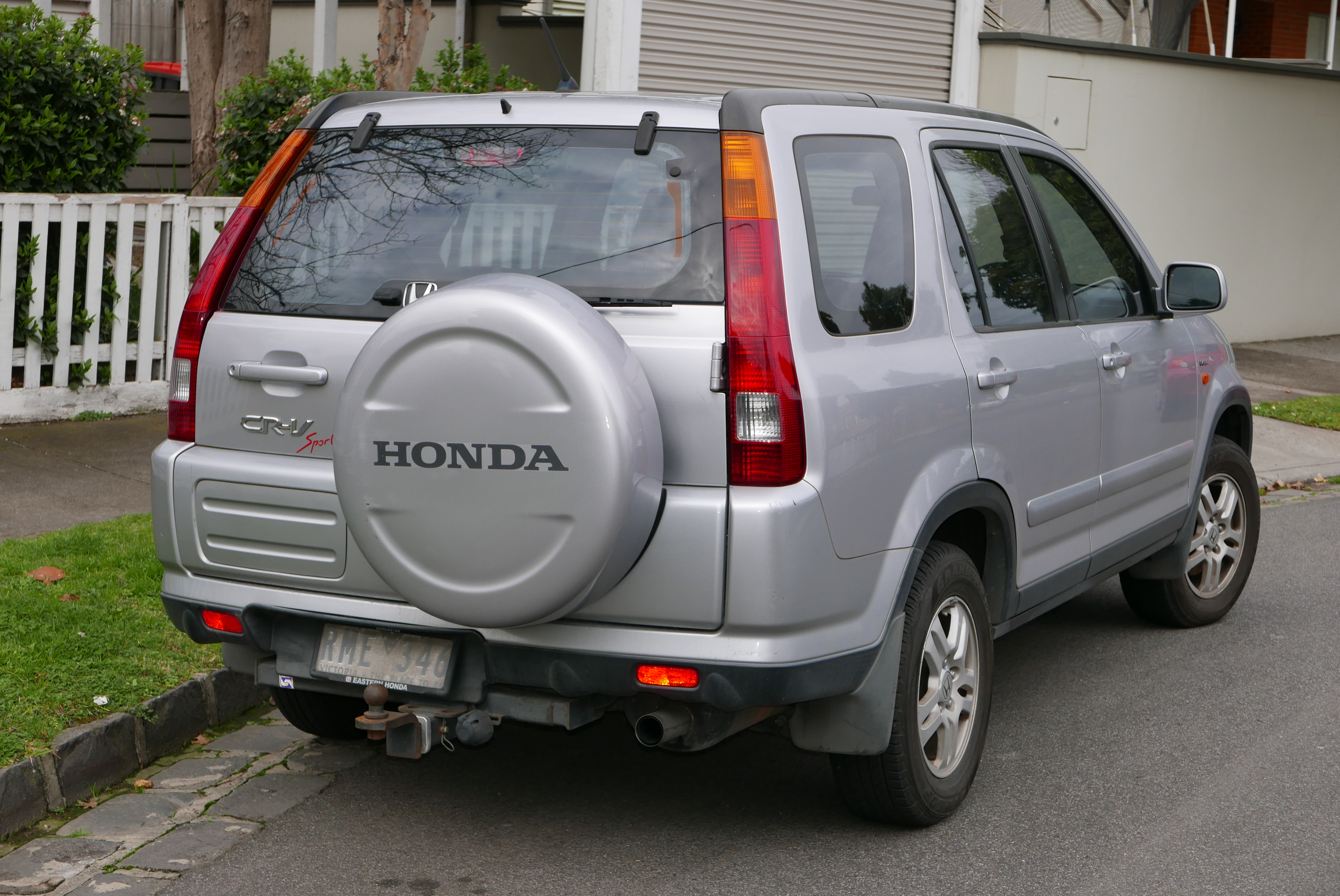 2002 Honda CR-V (RD7 MY02) Sport wagon. Photographed in Kew, Victoria, Australia. Vehicle registration enquiry resultsJurisdictionVictoriaRegistrationRME346Chassis codeJHLRD78802C205076Engine codeK24A11403965Compliance date2002-04Year of manufacture2002